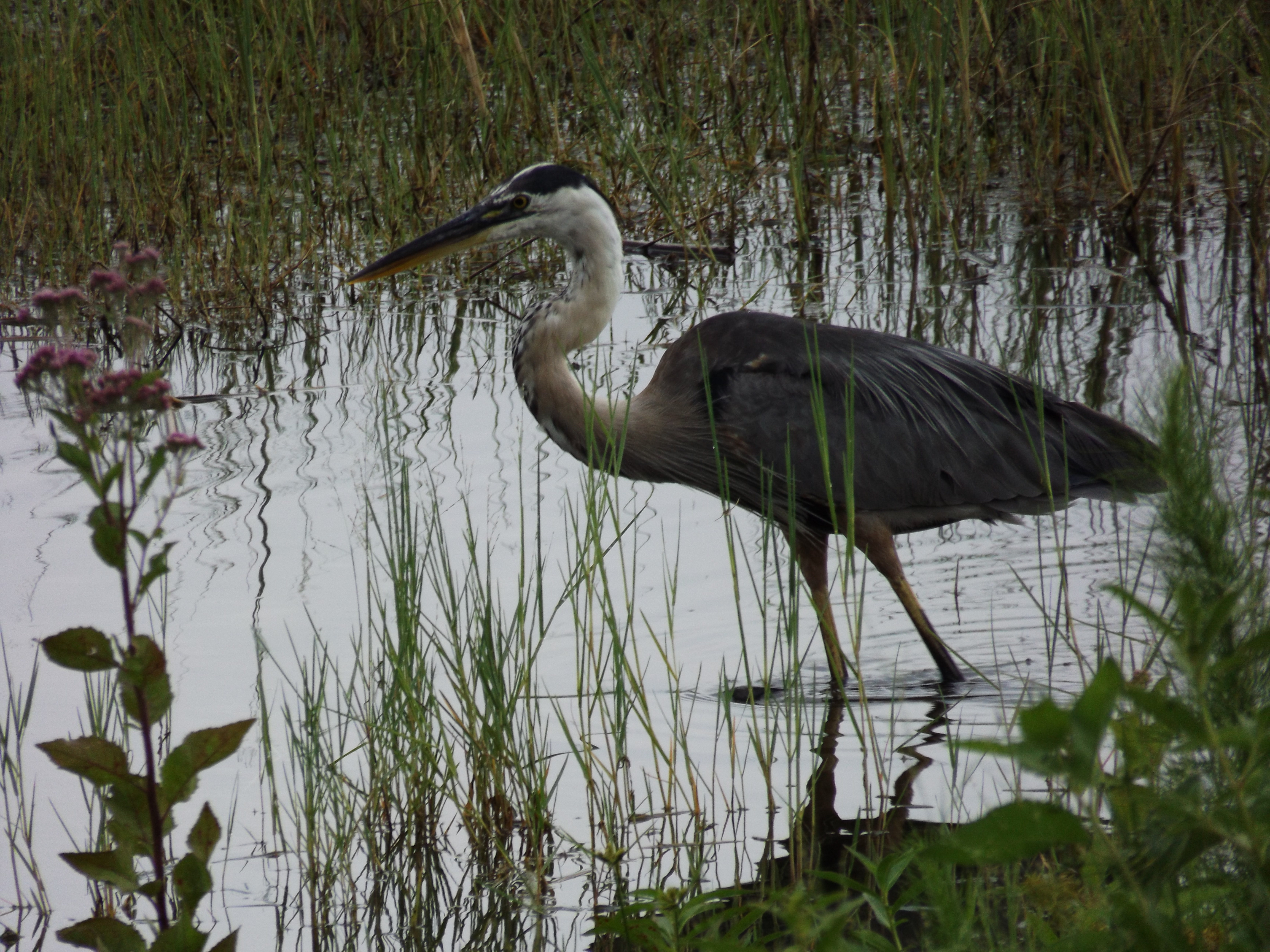 This is a photograph of a great blue heron on the shore of Lake Howard in Winter Haven, Florida.